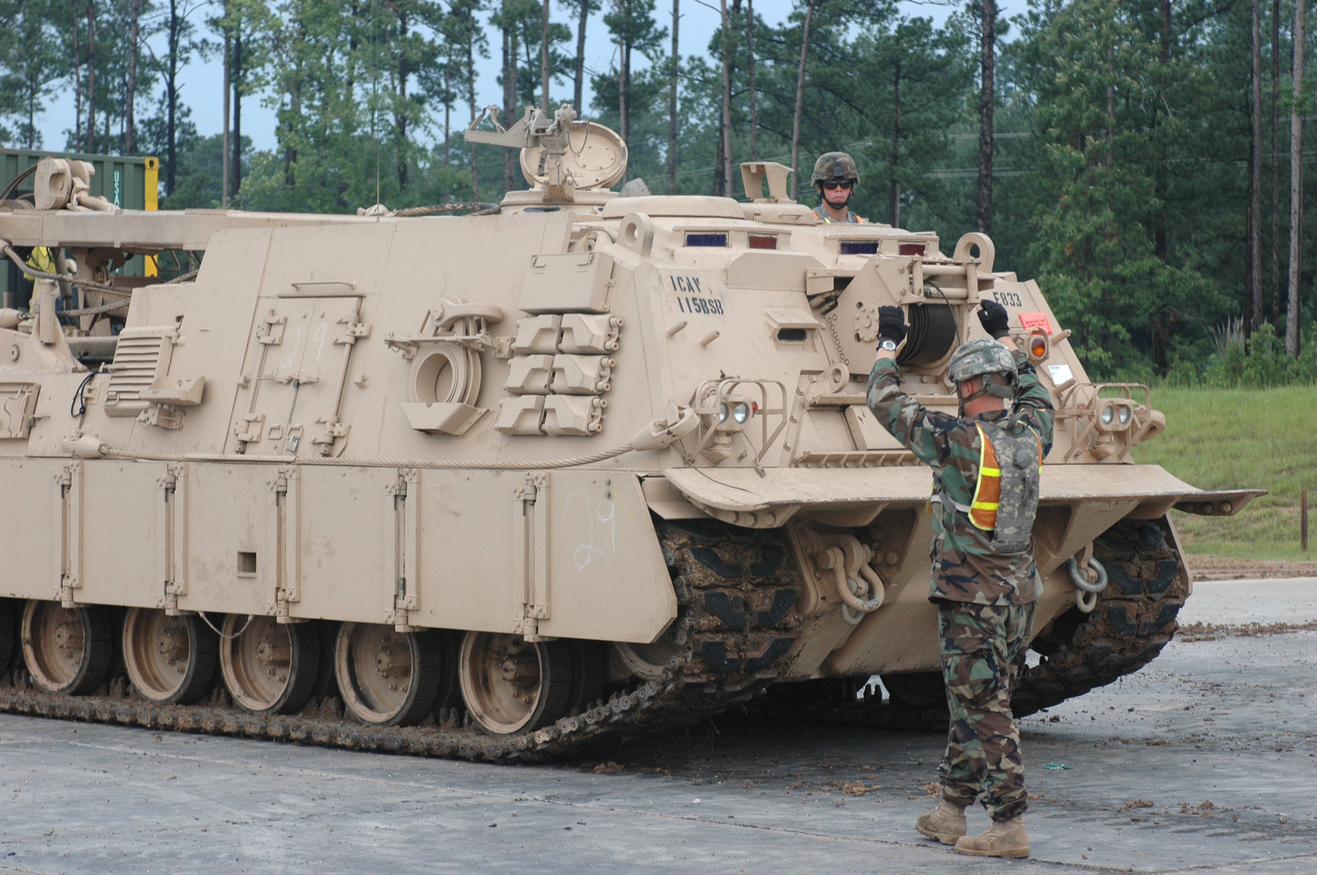 Soldiers of the 115th Brigade Support Battalion, 1st Brigade Combat Team, 1st Cavalry Division, retrieve one of their M88 Track Recovery Vehicles this week at a railhead in Fort Polk, La., before heading to the Joint Readiness Training Center.